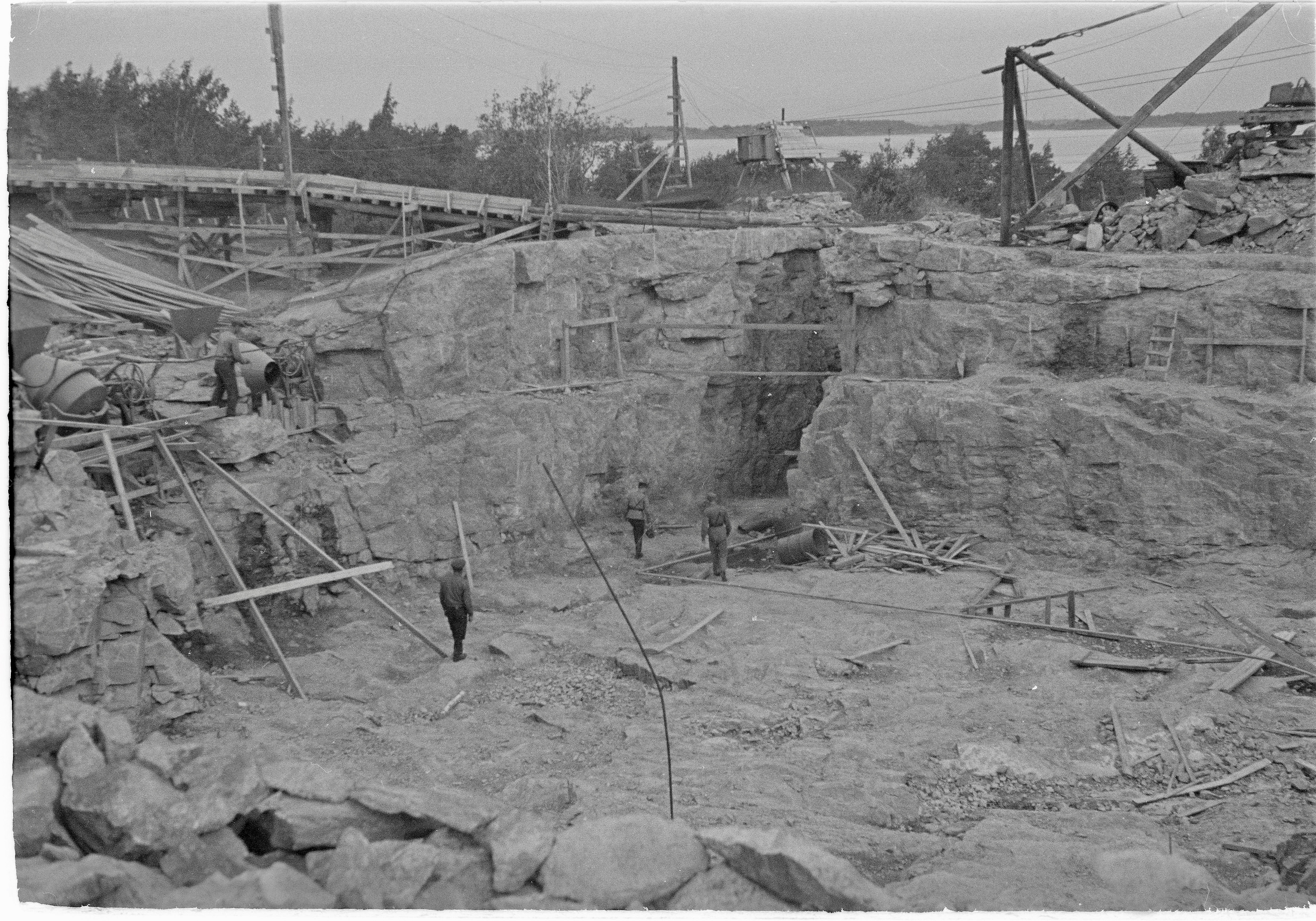 Fortifications being built in Isosaari